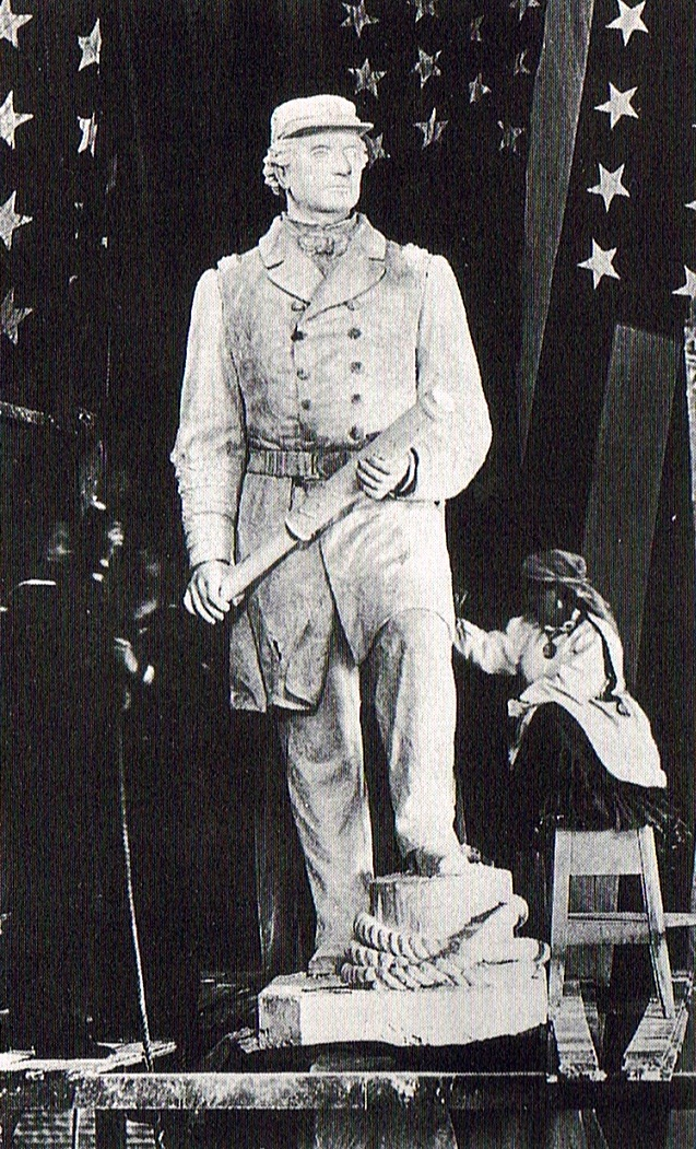 Vinnie Ream working on the Admiral David G. Farragut plaster model.